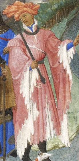 A Nobleman acompanying Jean de Berry for a pilgrimage. The man wears a Houppelande